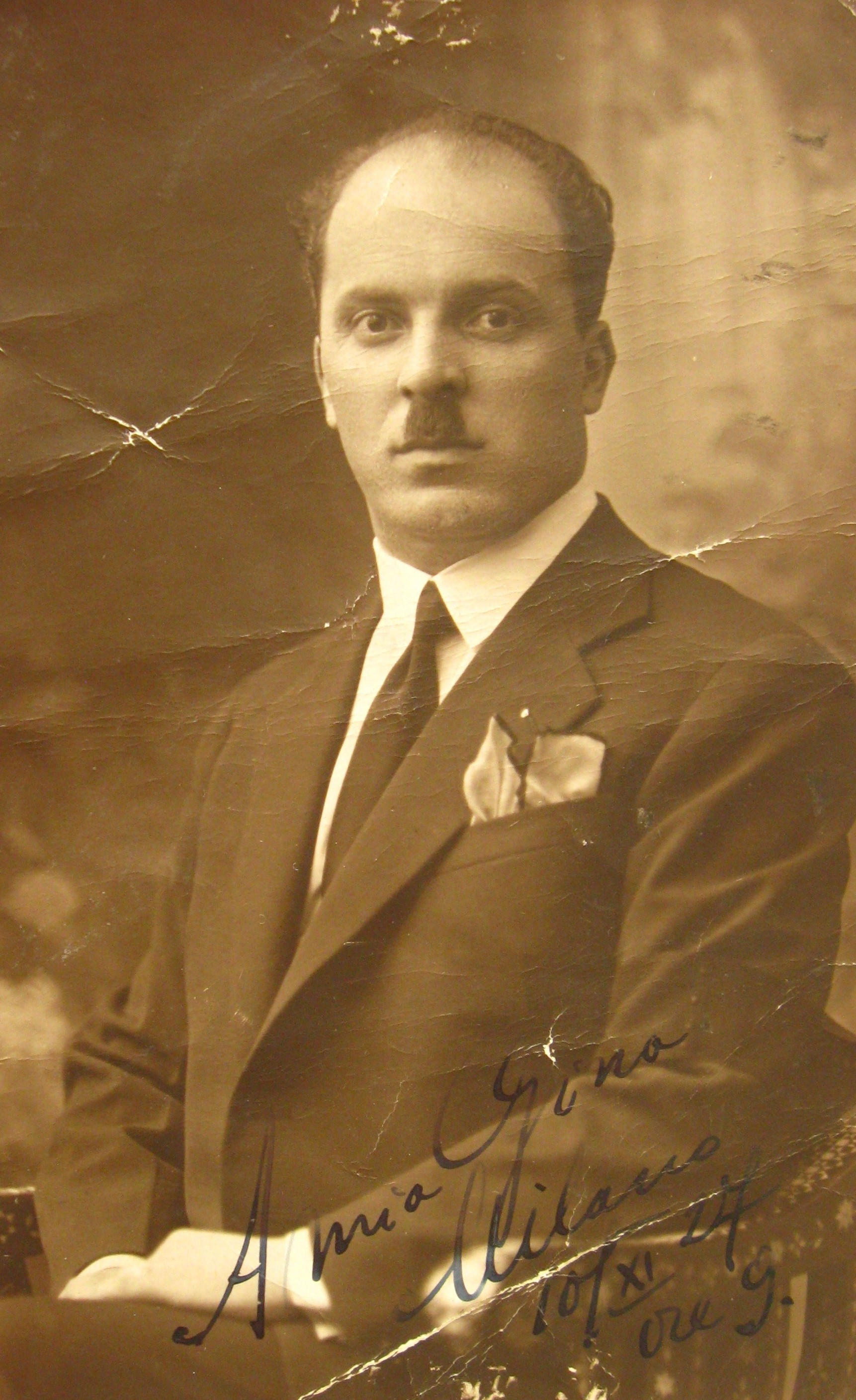 Minko Shipkovenski, Milan, November 10 1927